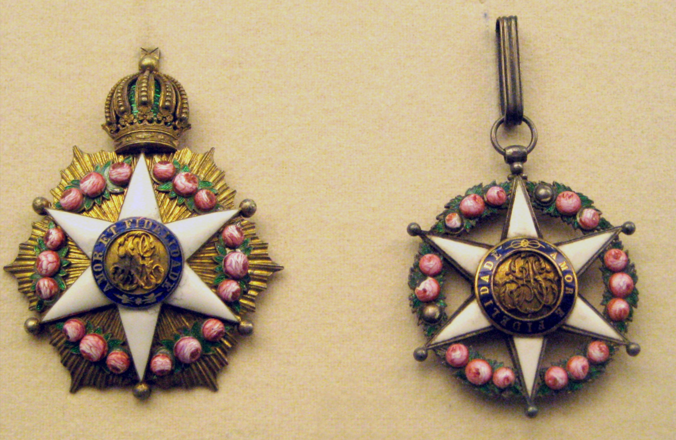 Imperial Ordem da Rosa, Order of the Rose. Brazil, mid 19th c.